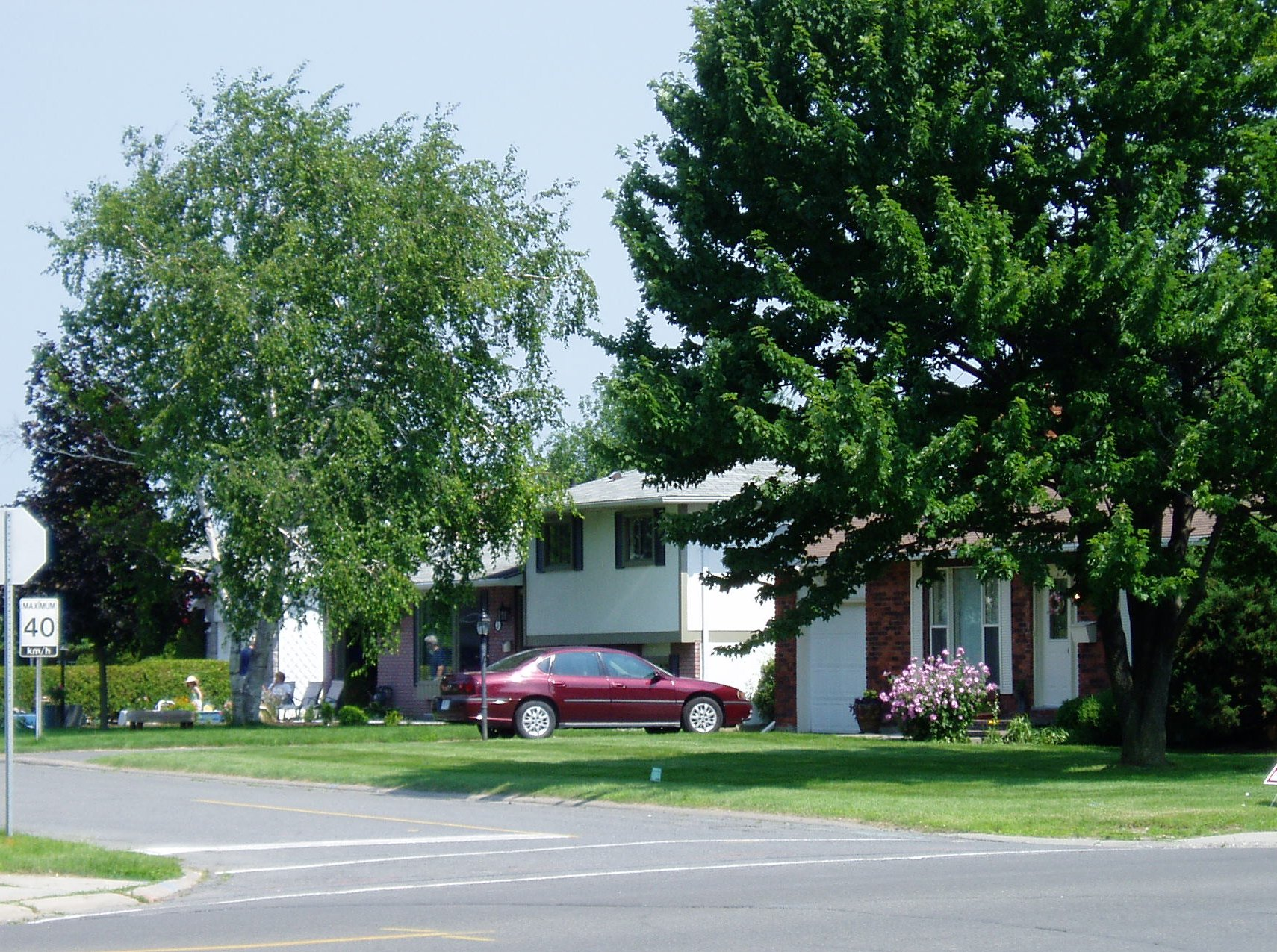 Barrhaven, taken by SimonP